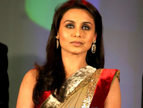 Rani Mukerji at Dance Premier League show